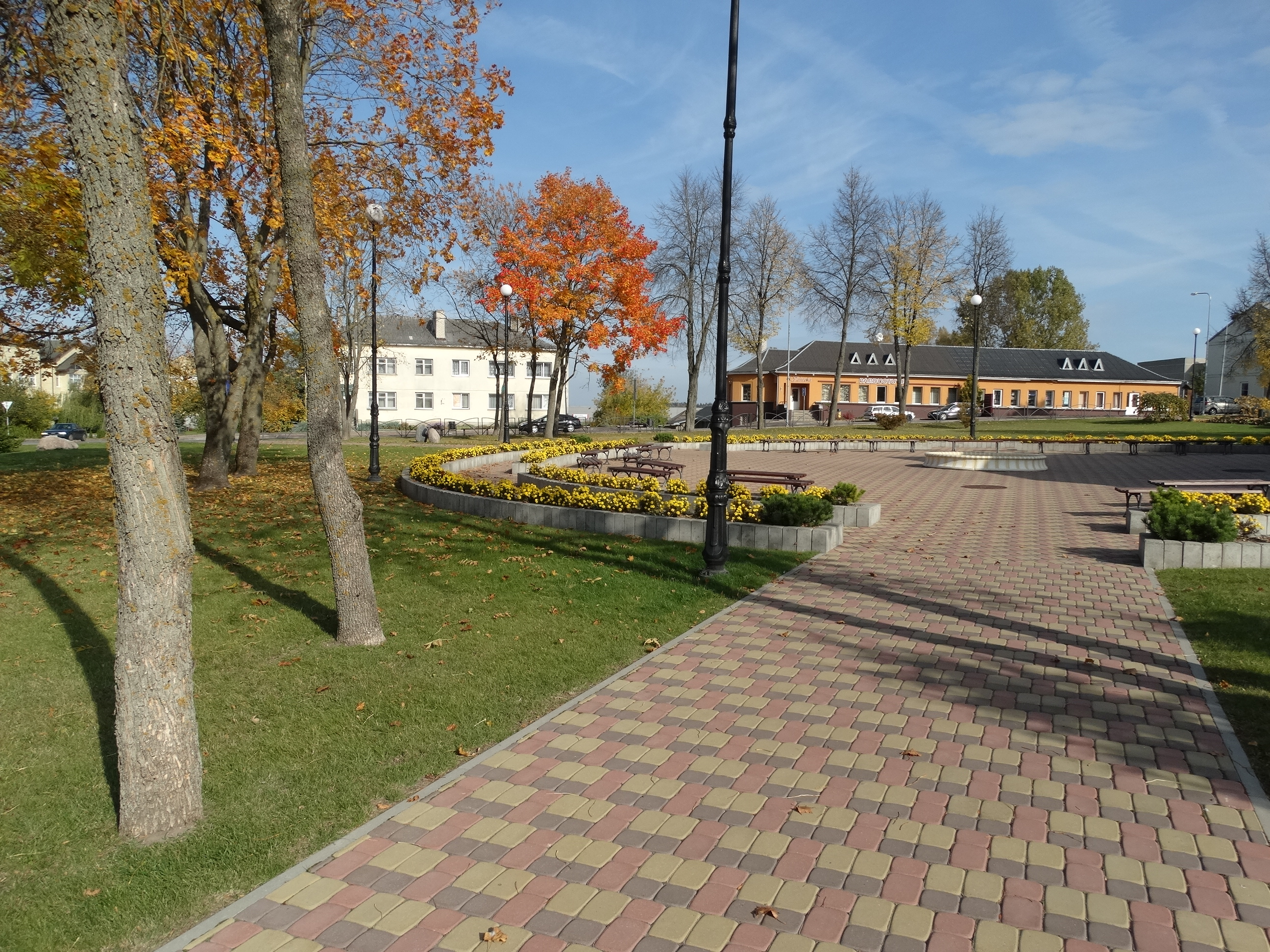 Lazdijai, Lithuania